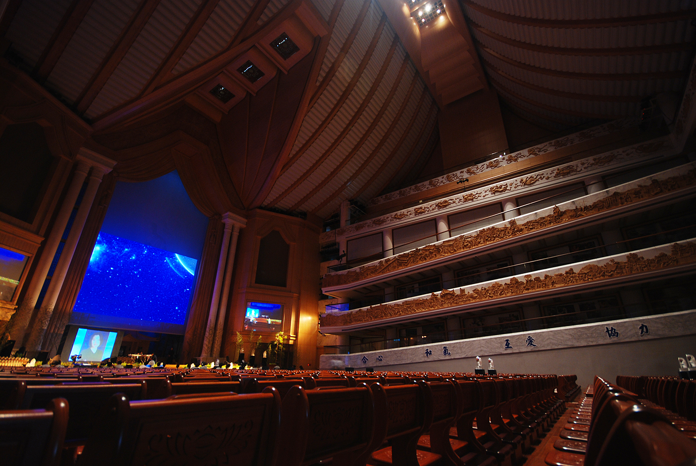 Auditorium of Hualien Jing Si Hall of the Tzu Chi Foundation. About Tzu Chi: The Tzu Chi Foundation is one of the three largest Buddhist organizations in Taiwan. Whereas many Buddhist societies focus on personal enlightenment and meditation, Tzu Chi focuses on community service and outreach (especially medical, educational, and disaster relief). Today, Tzu Chi is considered to be one of the most effective aid agencies in the region. Tzu Chi remains a non-profit organization and has built many hospitals and schools worldwide, including a comprehensive education system within Taiwan spanning from kindergarten through university and medical school. Special thanks to the Taiwan Visitors Association(Tourism Bureau) for the "Let's Bike Taiwan 2009" invitation and their excellent hospitality. Best to view on BLACK